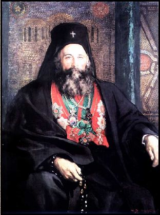 Portrait of Joseph I of Bulgaria (1840-1915)